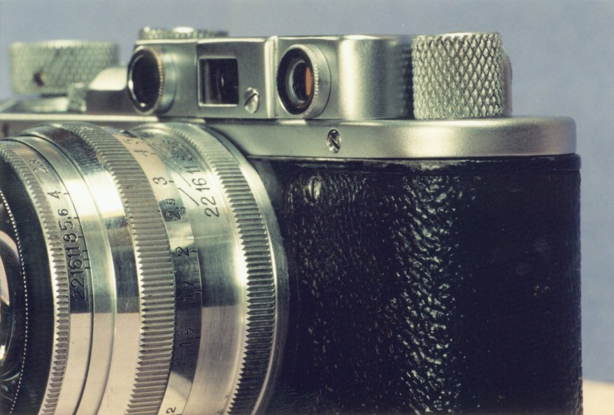 Zorki-1 with Jupiter-8 lens mounted. I took this picture. My camera.